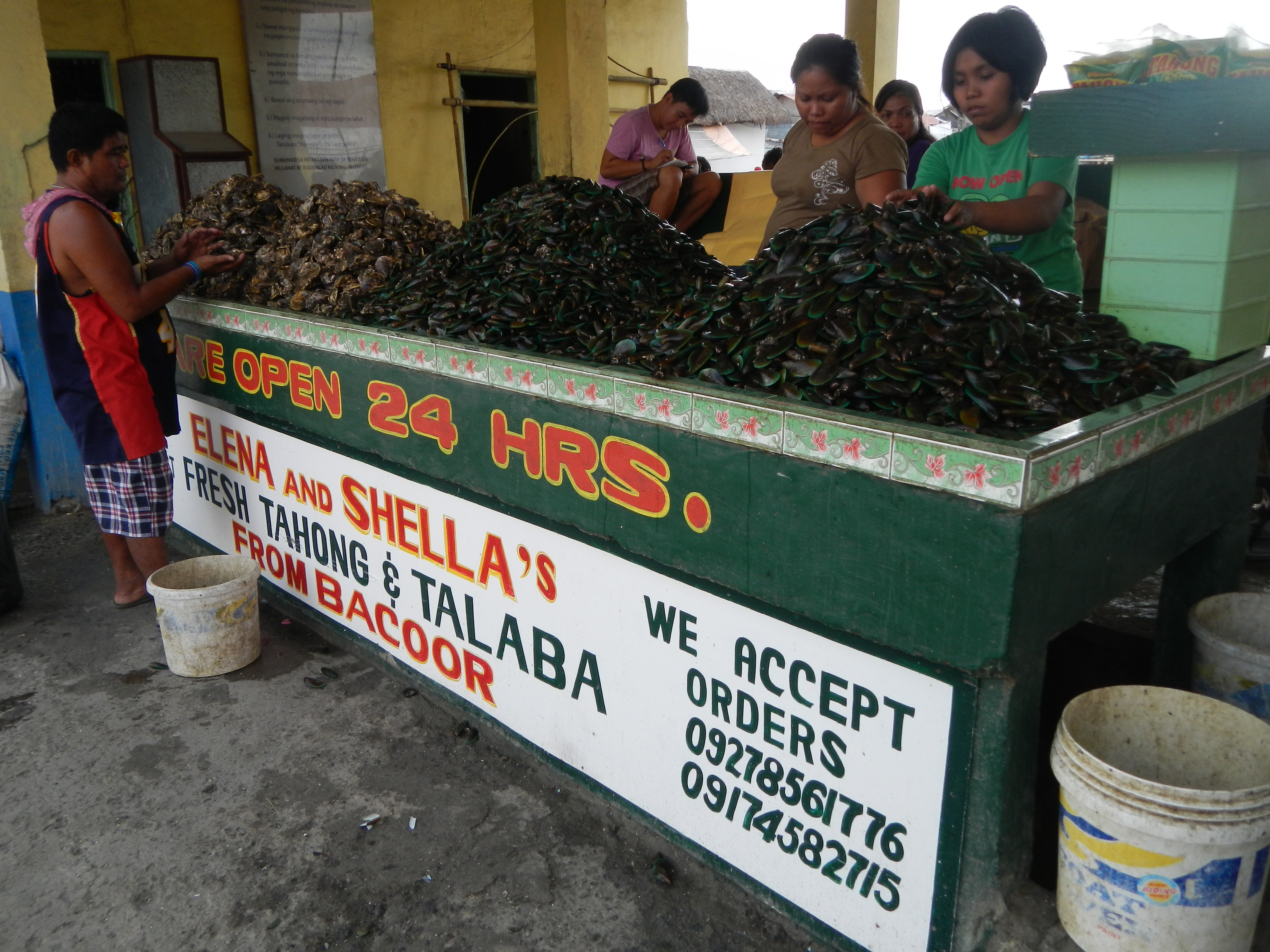 Bacoor[1] The City of Bacoor (Filipino: Lungsod ng Bacoor) is a first class urban component city in the province of Cavite[2] Philippines.Website Coordinates: 14°24'47"N 120°58'3"E [3] This place is situated in Cavite, Region 4, Philippines, its geographical coordinates are 14° 27' 28" North, 120° 56' 33" East and its original name (with diacritics) is Bacoor.[4] It is a lone congressional district of Cavite. A sub-urban area, the city is located approximately 15 kilometers southwest of Manila, on the southeastern shore of Manila Bay, at the northwest portion of the province with an area of 52.4 square kilometers. According to the 2010 census of population conducted by the National Statistics Office, Bacoor has a population of 520,216 making it the second most populous community in the province after Dasmariñas. Brgy. Sineguelasan, Bacoor, Cavite [5] Coordinates: 14°27'34"N 120°55'46"E[6] Day Care Center and Library with playground at Brgy. Sineguelasan [7] St . Michael's Institute SM City Bacoor [8] Coordinates: 14°27'33"N 120°55'55"E - Brgy. Sineguelasan Hall[9] Sineguelasan, Bacoor, Cavite, Calabarzon (Region IV-A) is located in Philippines. Its zip code is 4102.[10]Oyster Farming in Bacoor [N.B. From Bulacan at 11:00 a.m. I took photos of Bacoor, Cavite at 1:54 p.m., the Town Hall, Plaza, Halls of Justice, St. Michael the Archangel heritage Church and the Oysters and Mussels of Bacoor in Brgy. Sineguelasan - finishing at 4:52 p.m.]